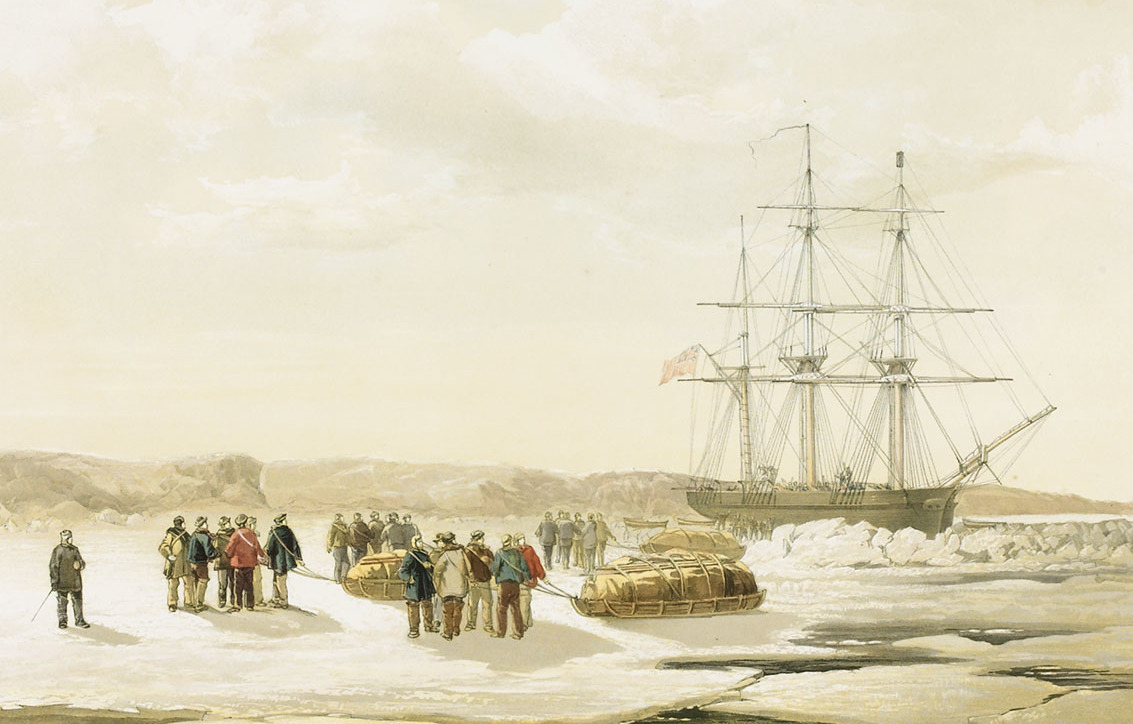 Sledge party leaving HMS Investigator in Mercy Bay under the command of Lieutenant Gurney Cresswell, April 15, 1853.